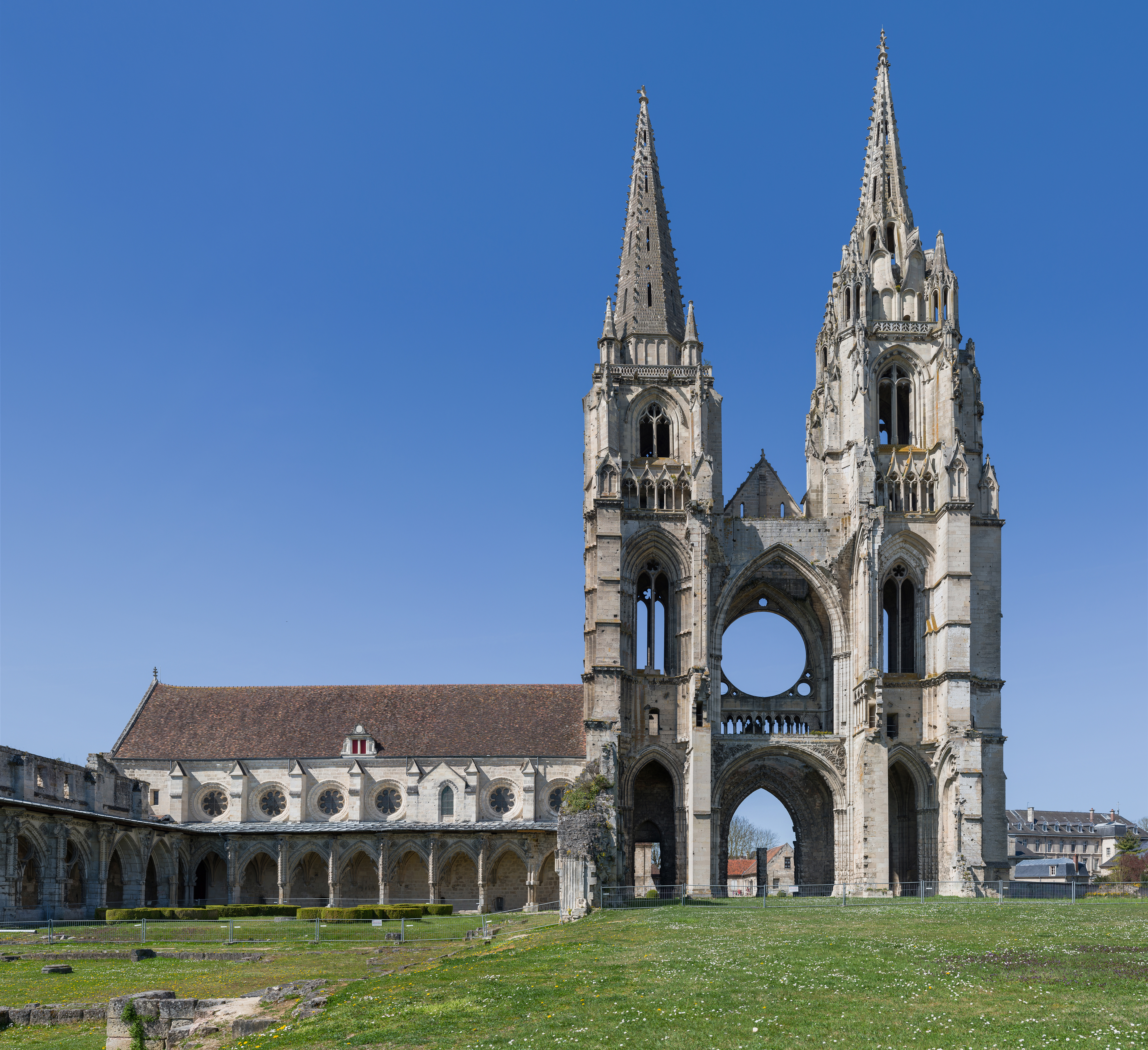 The ruins of Abbey of St. Jean des Vignes, Soissons, Picardy, France